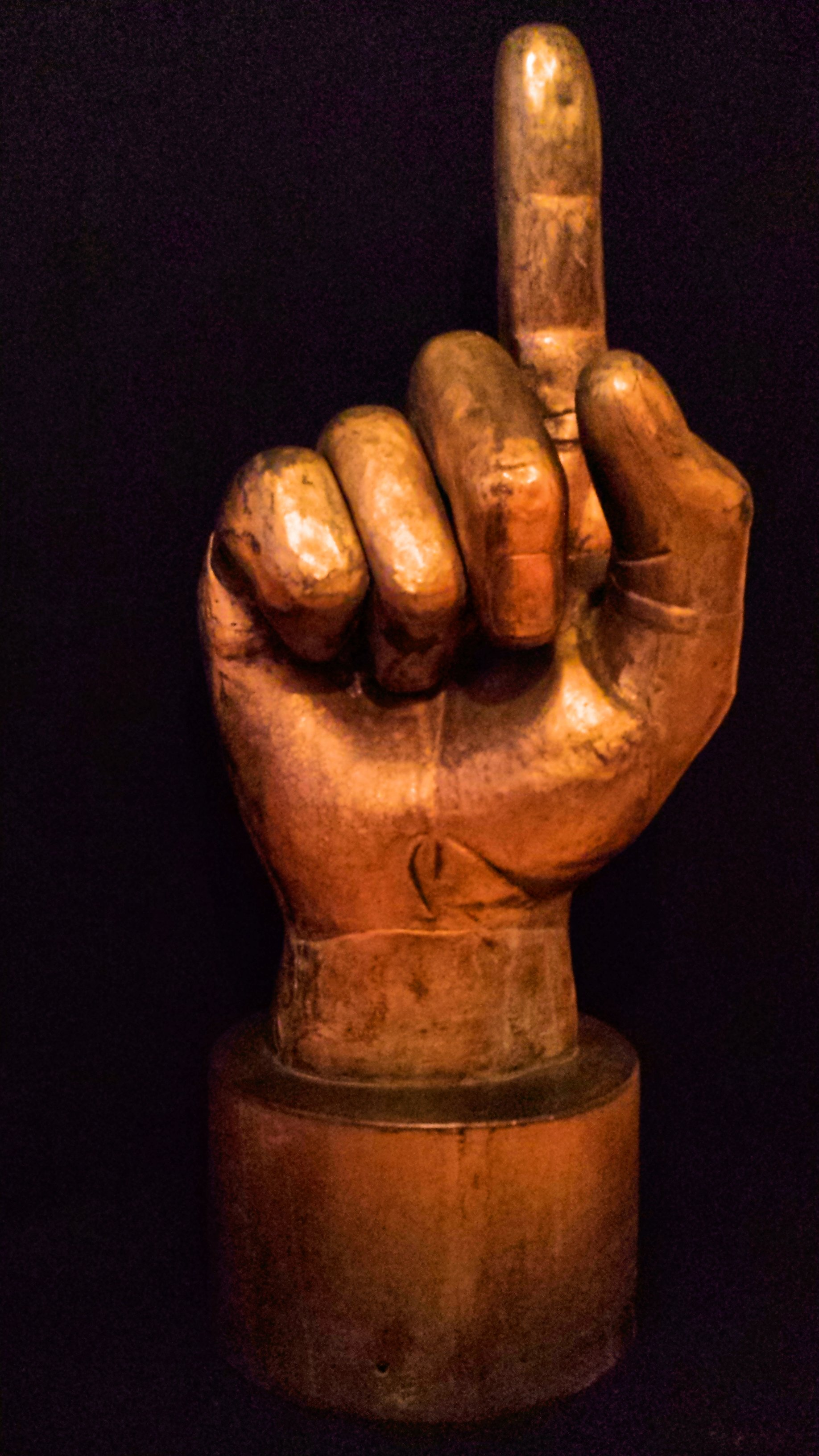 The Mahnhand of Cochem 2019